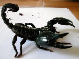 scorpion Heterometrus petersii in attack position